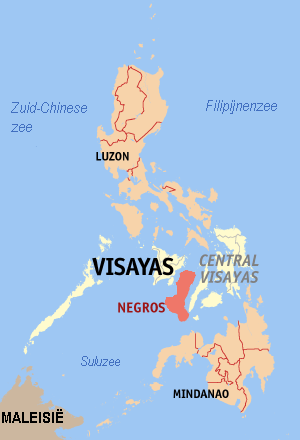 Summary